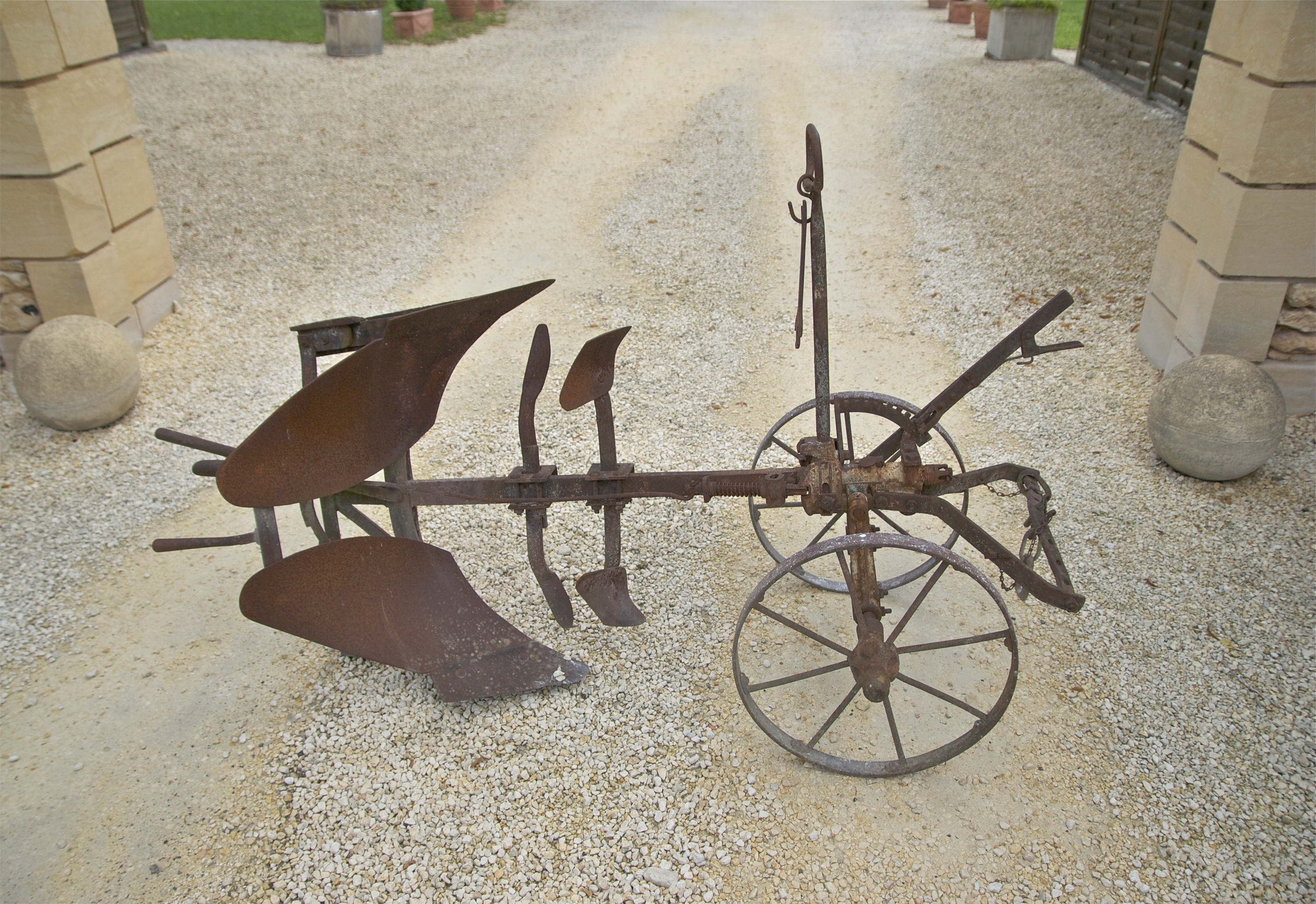 An old rusty plough, Dordogne, France